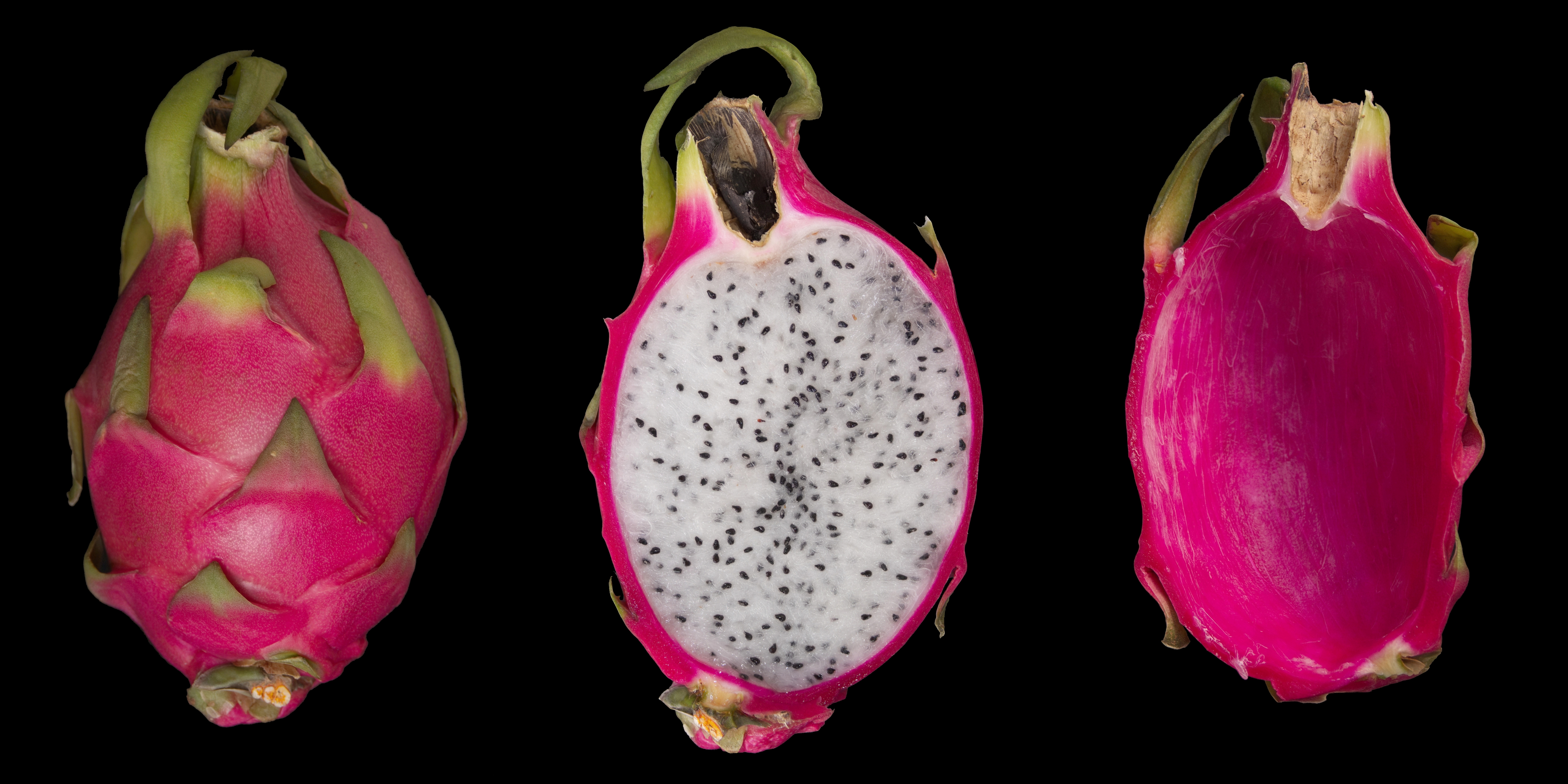 Hylocereus undatus (Haw.) Britton & Rose White-fleshed pitahaya or dragon fruit (the fruit of Hylocereus undatus, а scandent or creeping plant cultivated in many countries, a species of Cactaceae). General view of the fruit, the fruit in the section, the fruit in the section with the removed pulp.